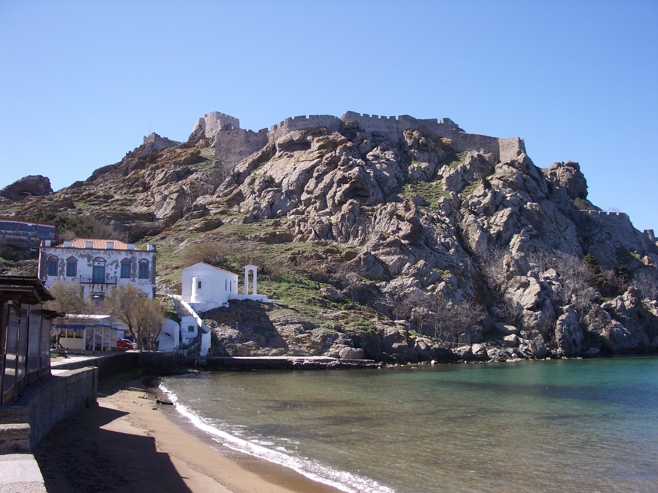 Myrina castle view from Romeikos Gialos, on a fair-weather March midday.